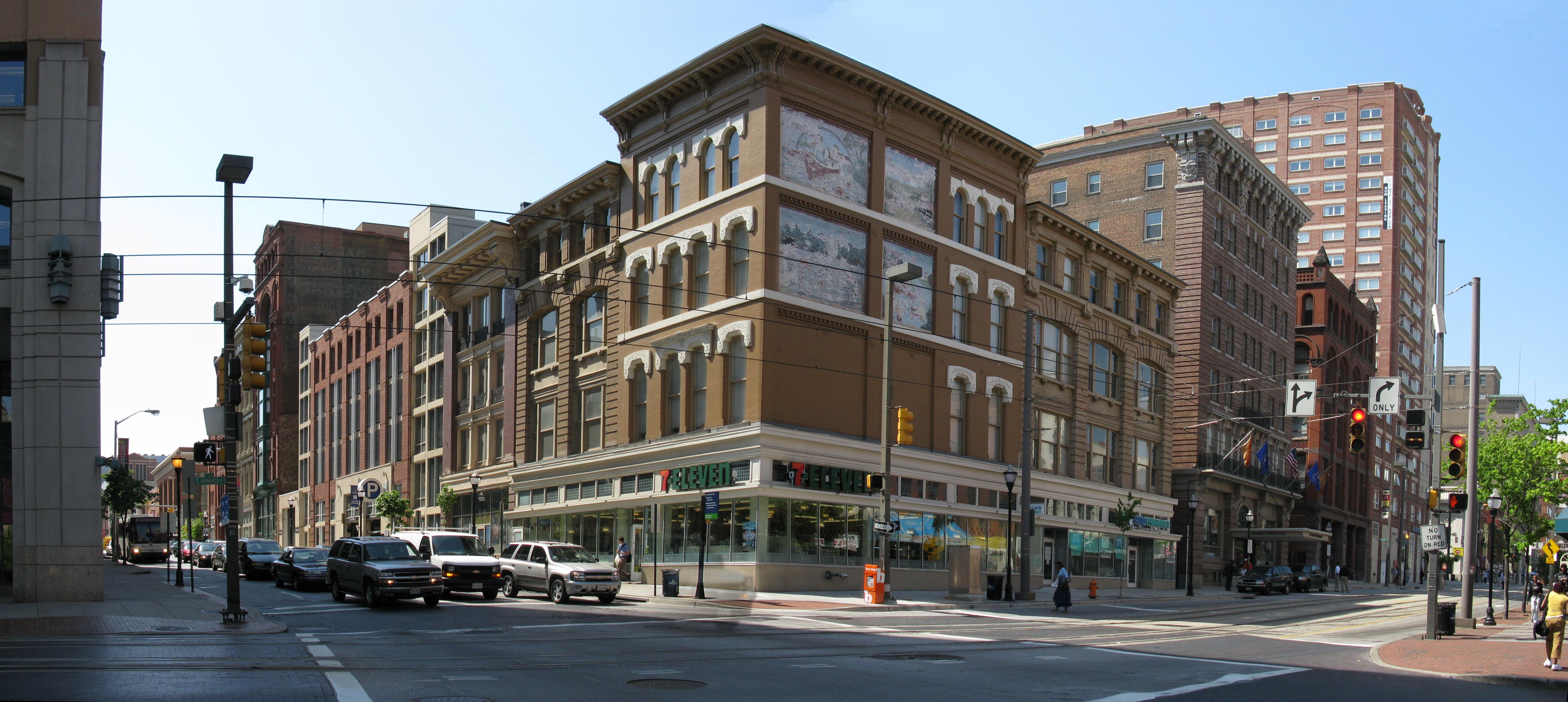 North Howard Street at West Baltimore Street, Baltimore, Maryland